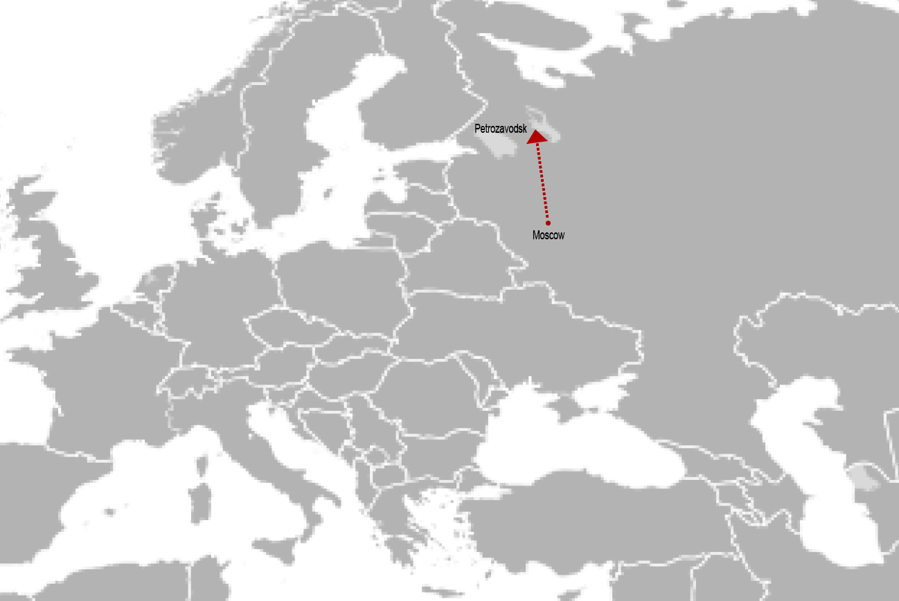 Route of Flight RusAir 9605 crashed on June, 20th 2011 at Petrozavodsk (Republic of Karelia)